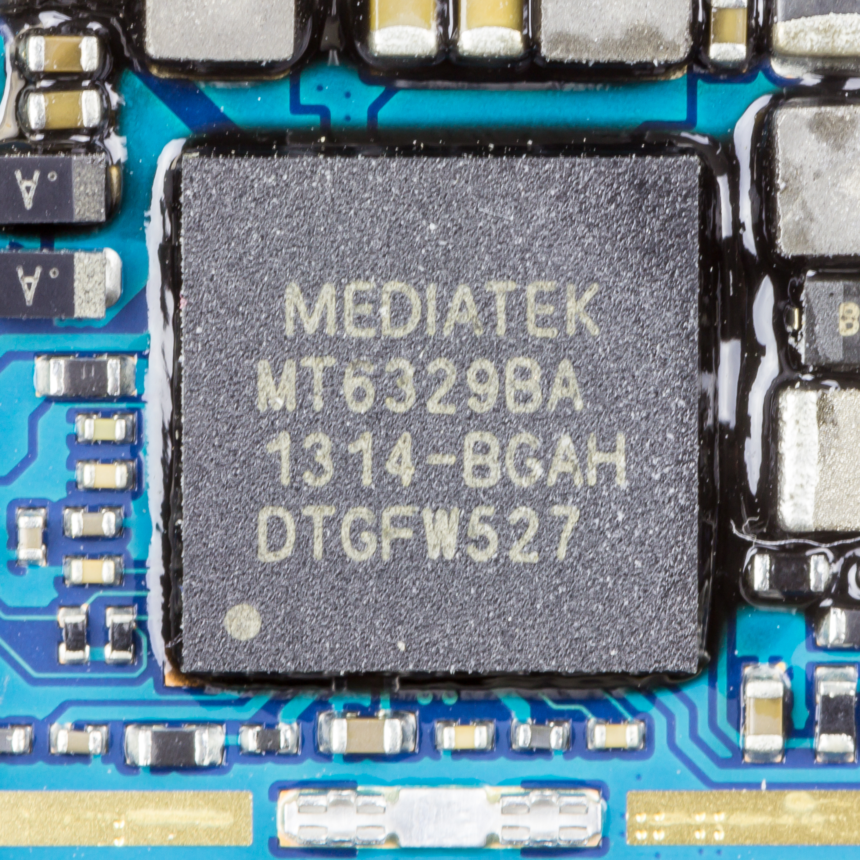 LG E455 Optimus L5 II Dual - Mediatek MT6329BA (Power management integrated circuit (PMIC))